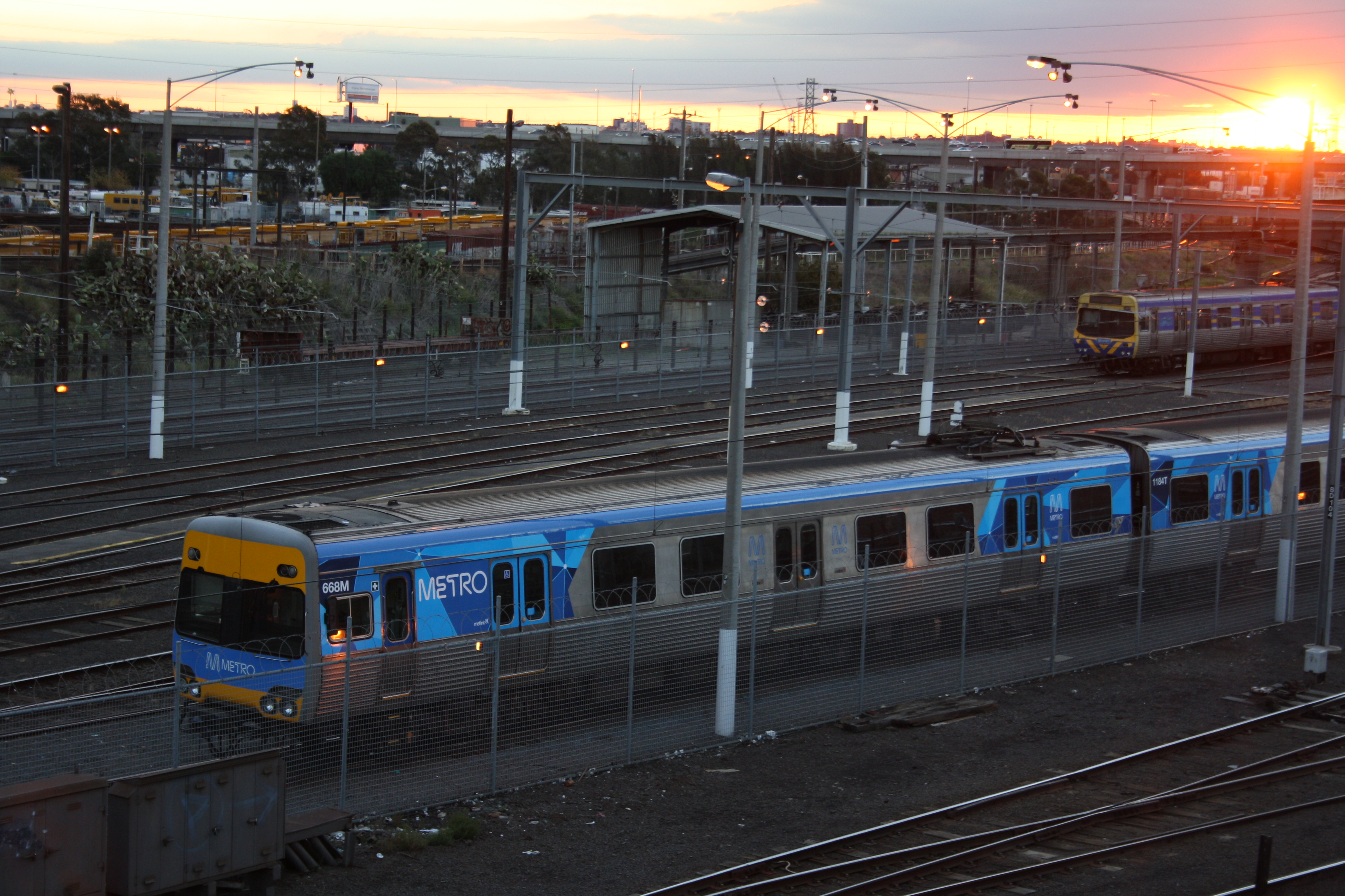 Comeng 668M in the new Metro livrery stabled at North Melb at sunset.